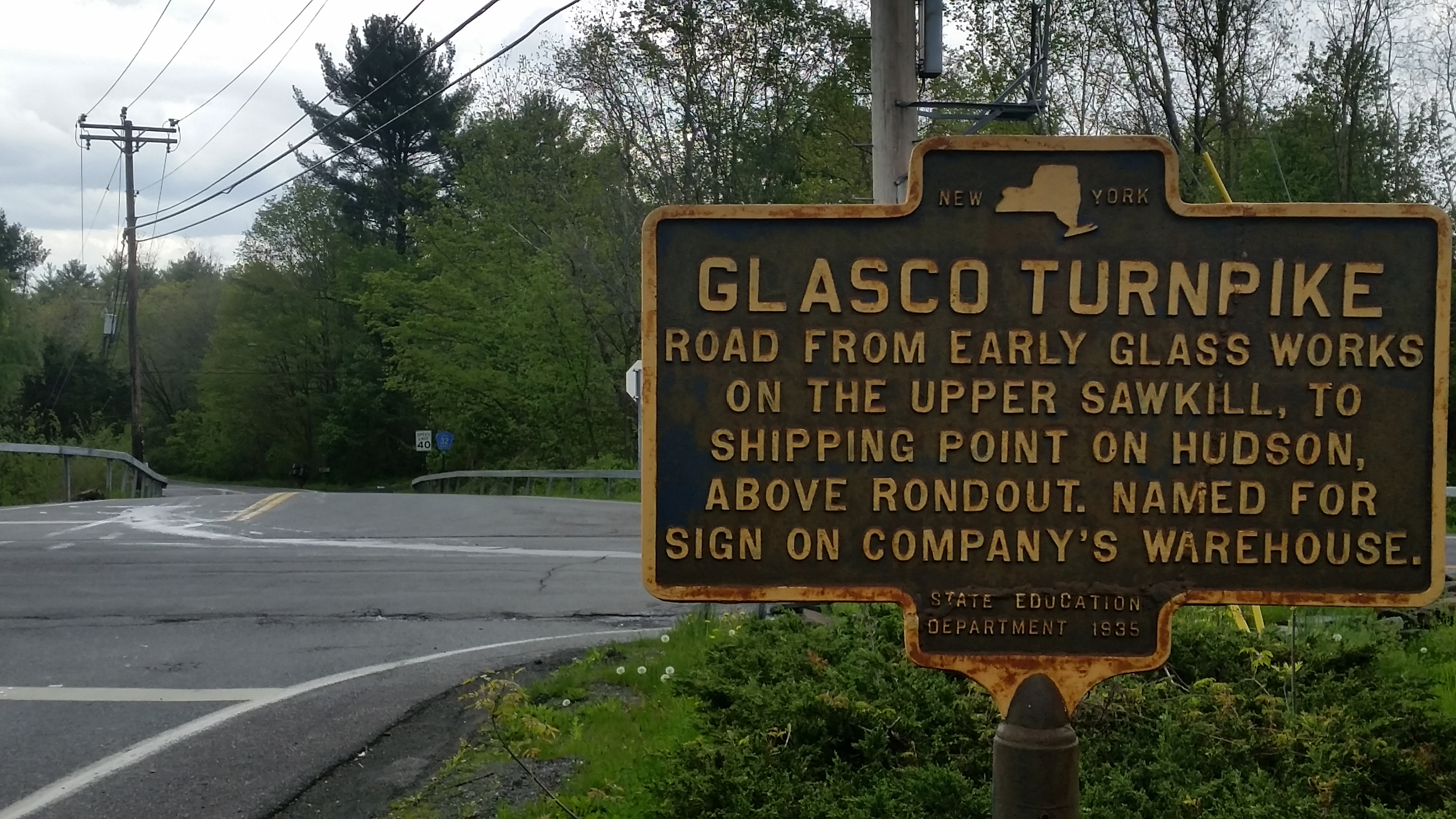 NY State historical marker for Glasco Turnpike, an early road from Woodstock to Kingston NY